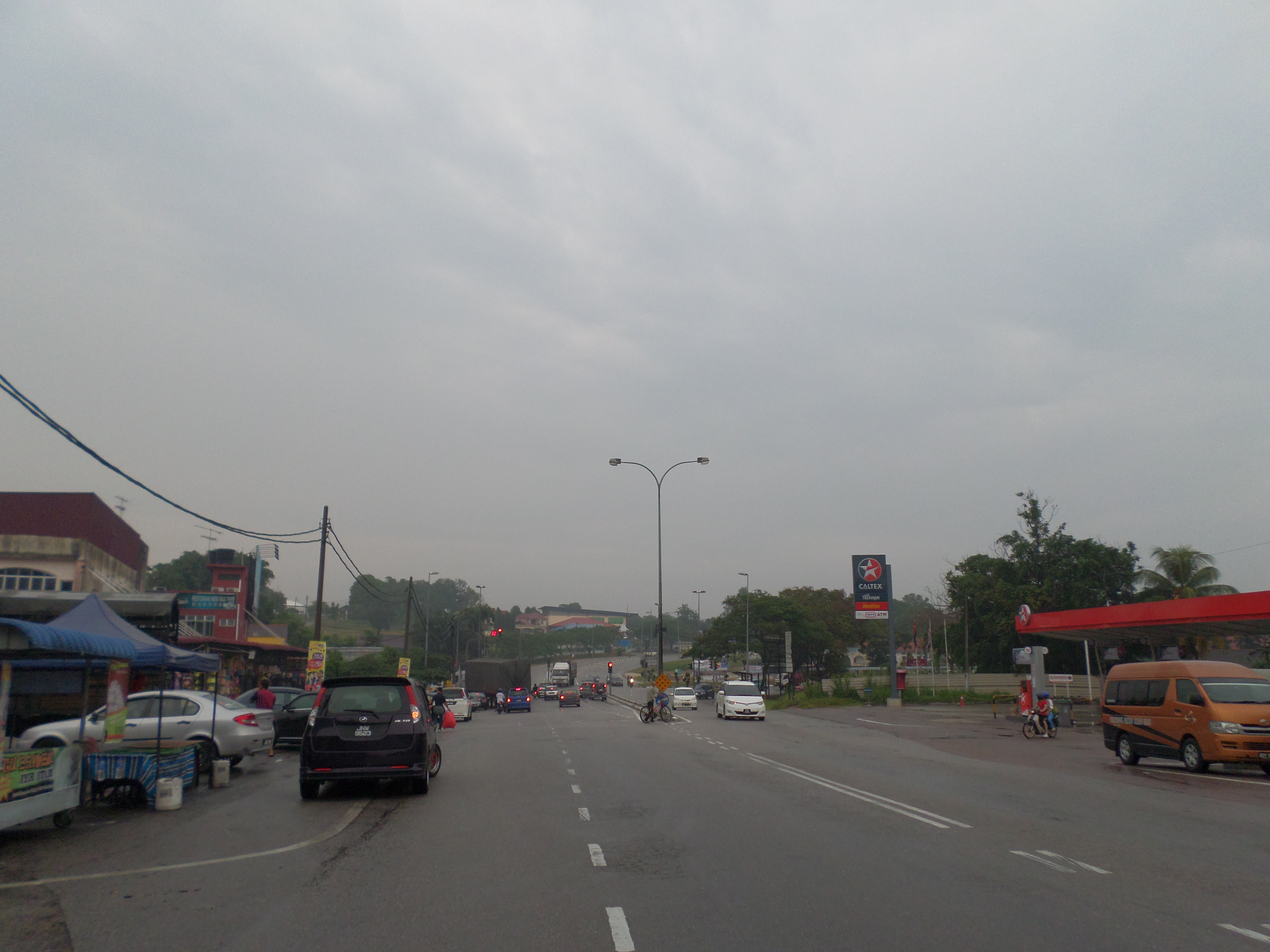 Ayer Hitam, Batu Pahat, Johor, MalaysiaBahasa Melayu: Ayer Hitam, Batu Pahat, Johor, Malaysia